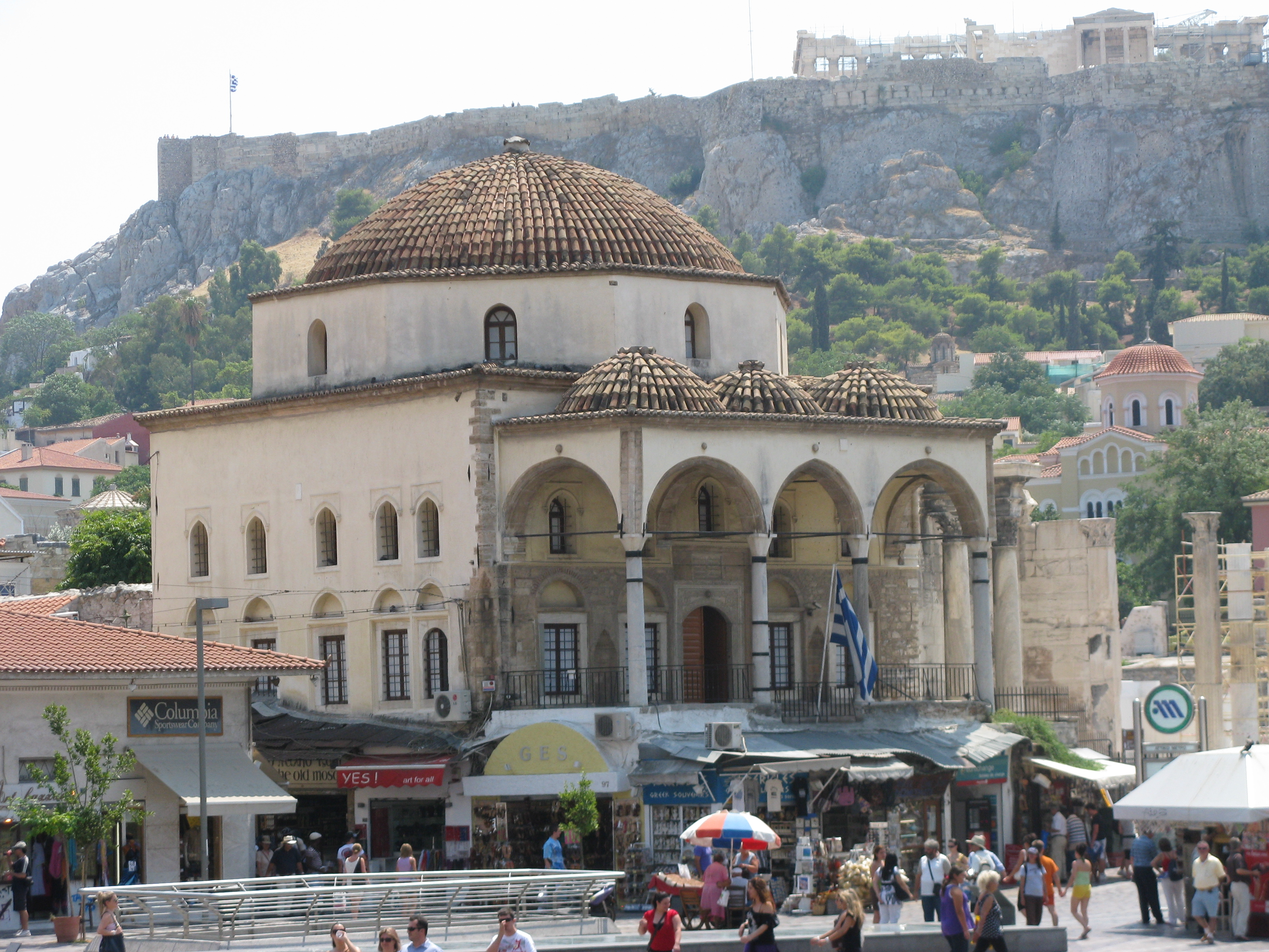 Tzisdarakis Mosque, Monastiraki Square, Athens